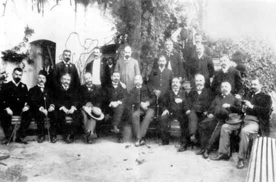 Comittee for the draft of a new constitution for Crete